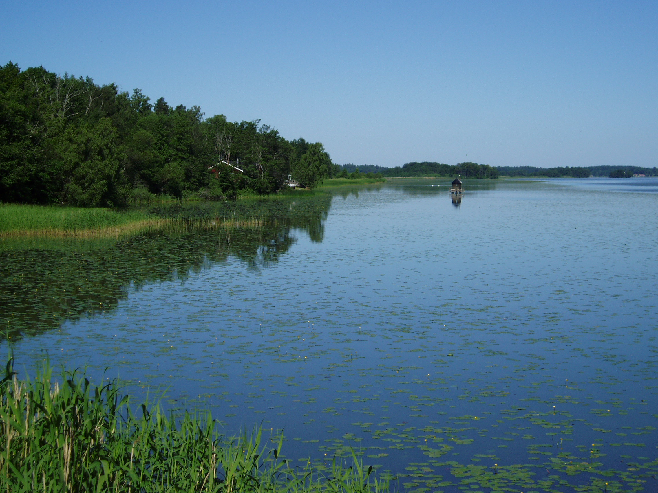 Sörfjärden, lake Mälaren, Sweden